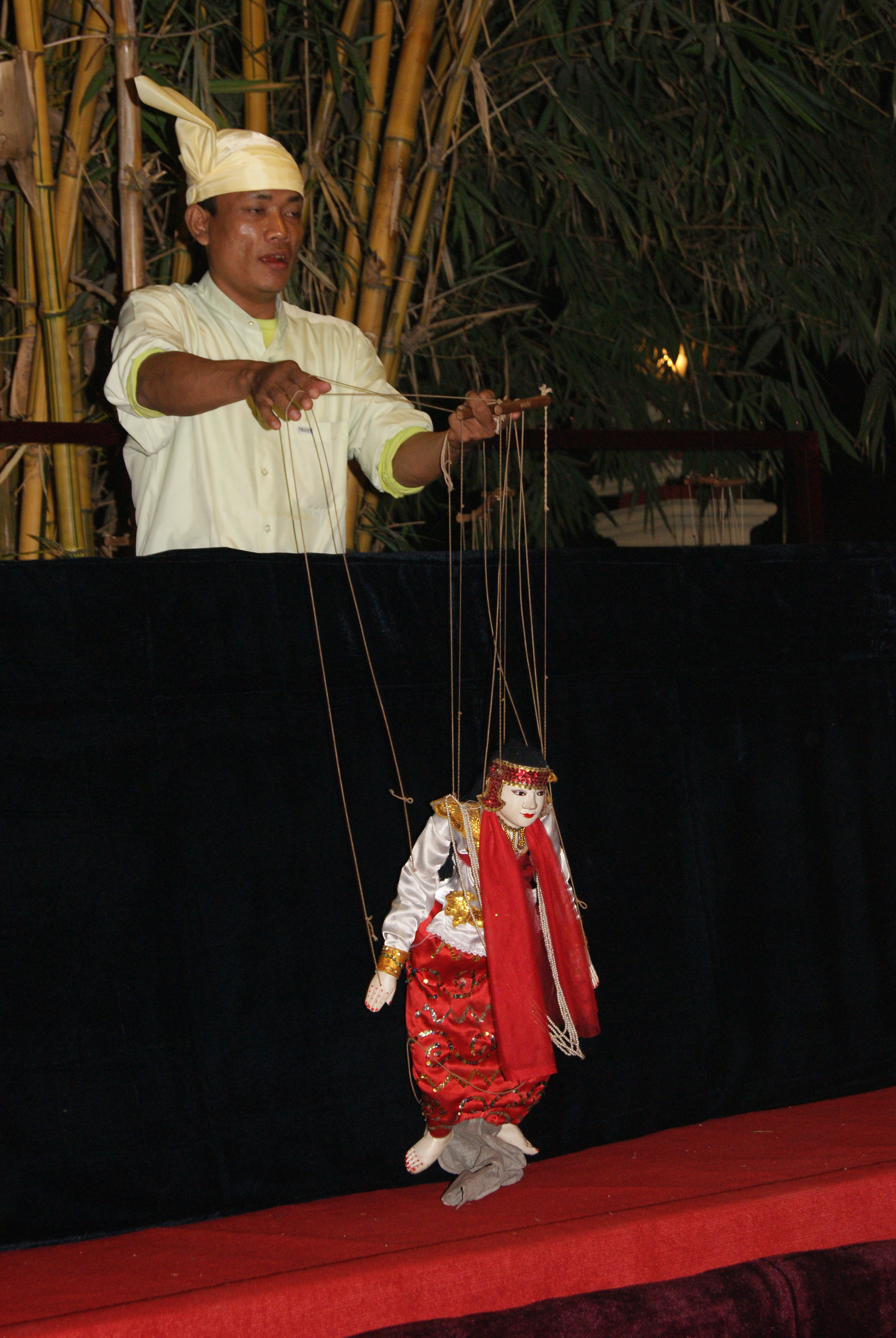 A traditional yoke thé (puppetry) show at the Unique Myanmar Bar & Restaurant in Mandalay, Myanmar.